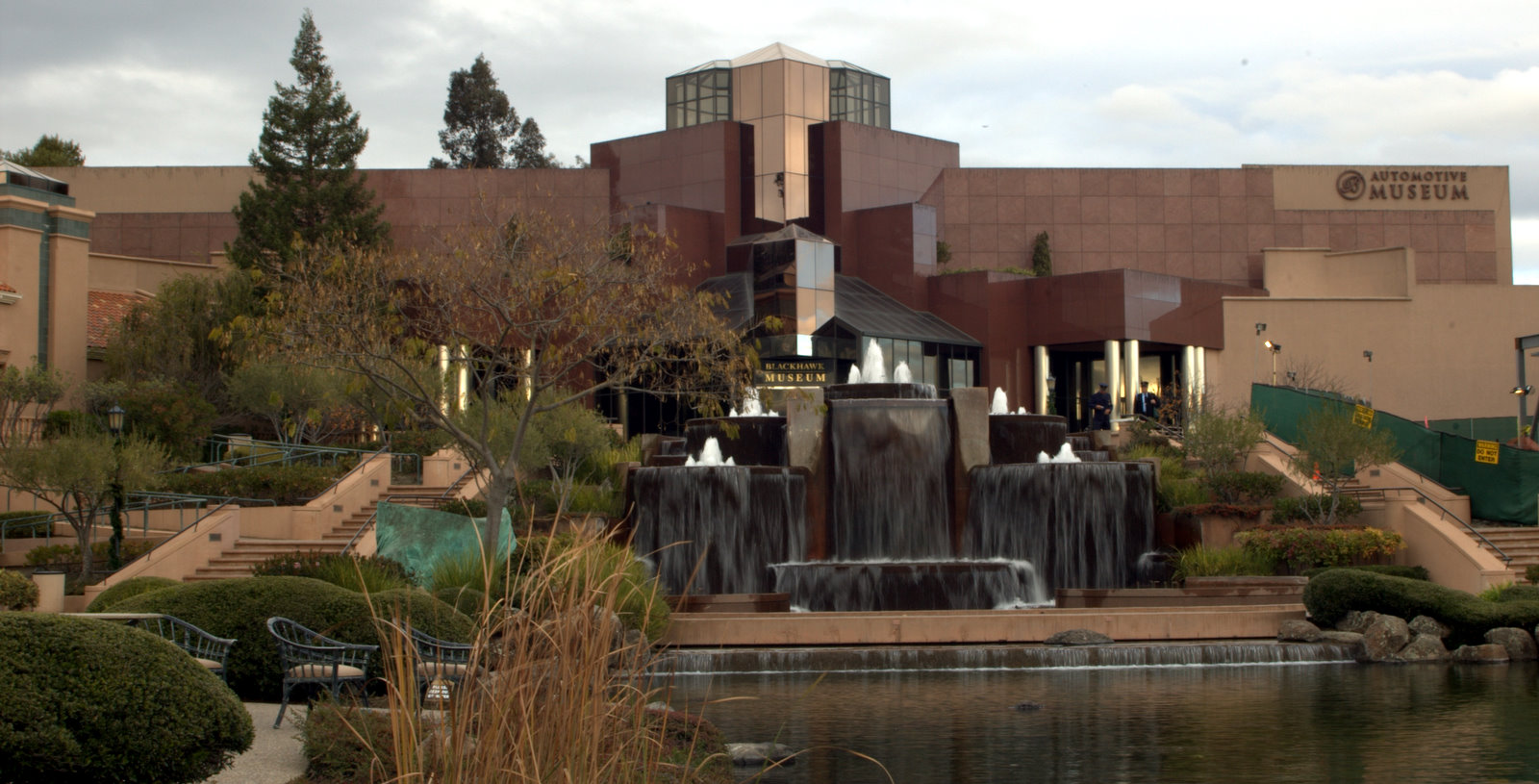 The Blackhawk Museum